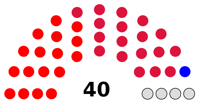 Composition of the House of Delegates after the 1984 General Election Solidarity: 17 seats National People's Party: 18 seats Progressive Independent Party: 1 seat Independents: 4 seats